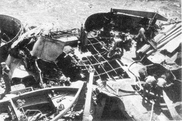 View of the damage inflicted upon the U.S. Navy destroyer USS Hugh W. Hadley (DD-774) on 11 May 1945. One bomb hit aft, a Yokosuka MXY-7 Ohka hit, and two kamikaze crashes were inflicted on the ship. This is a view of the midship deckhouse, frames 130 to 150, in the way of the third Kamikaze crash and the ensuing fire. The plane hit at the base of the director tower.